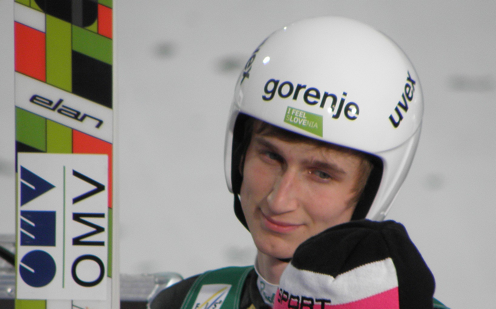 Slovenian skijumper Mitja Mežnar at the FIS Nordic World Ski Championships 2011 in Oslo.